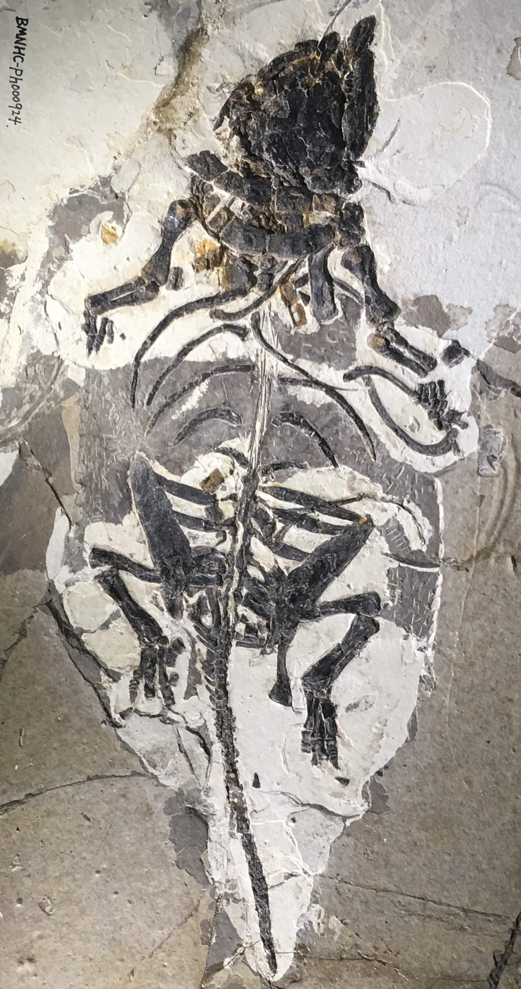 Image of specimen in the Beijing Museum of Natural History, China